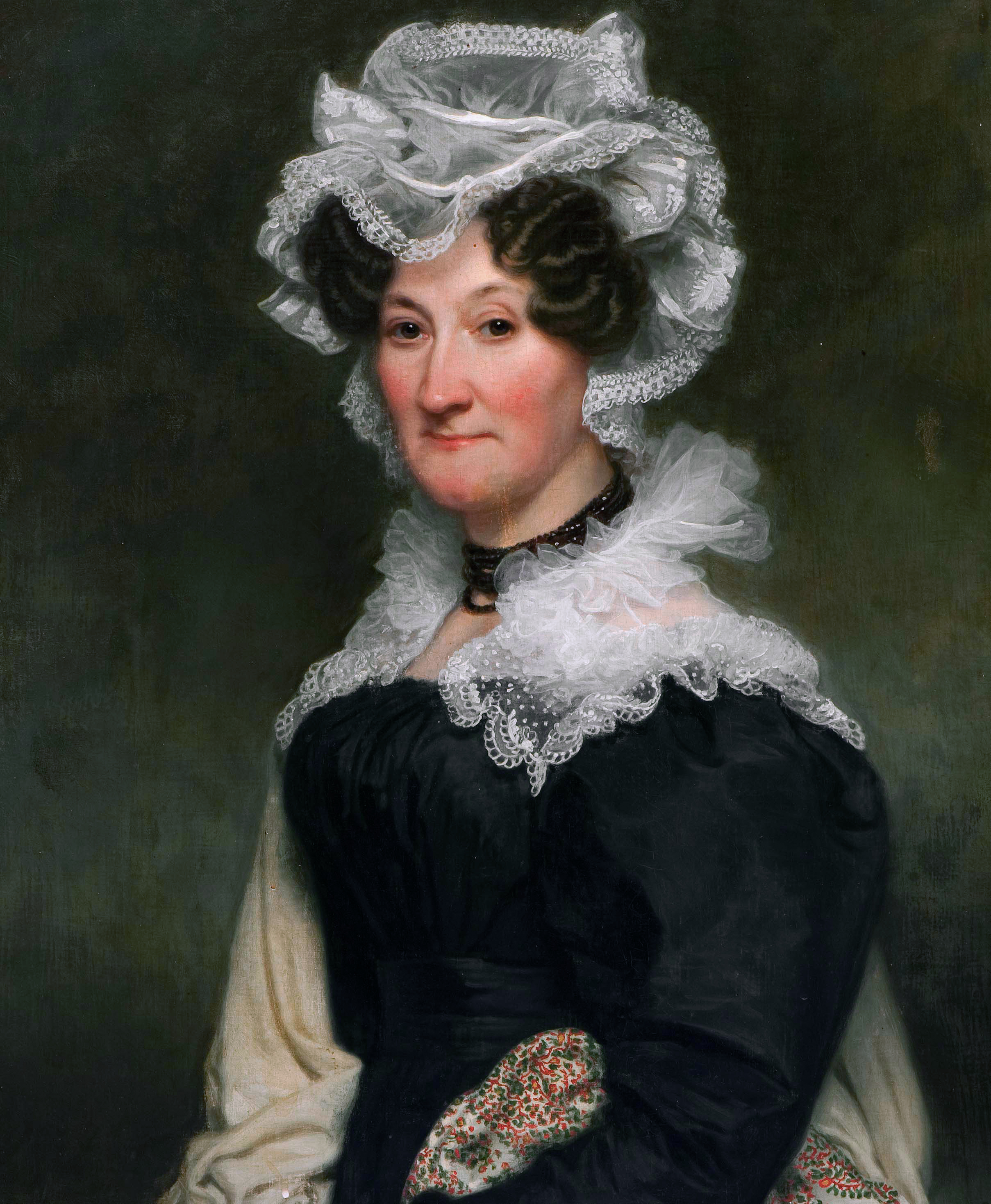 Catharina Helena Maria van Beusechem (1779 - 1845) marouflage 72.7 x 61.4 cm circa 1820/1825